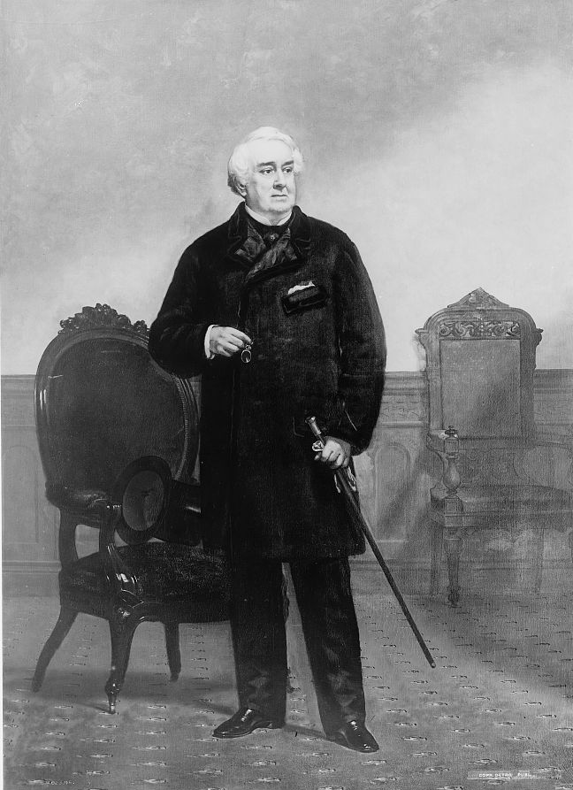 Full-length portrait of William Corcoran (1867) by Charles Loring Elliott.